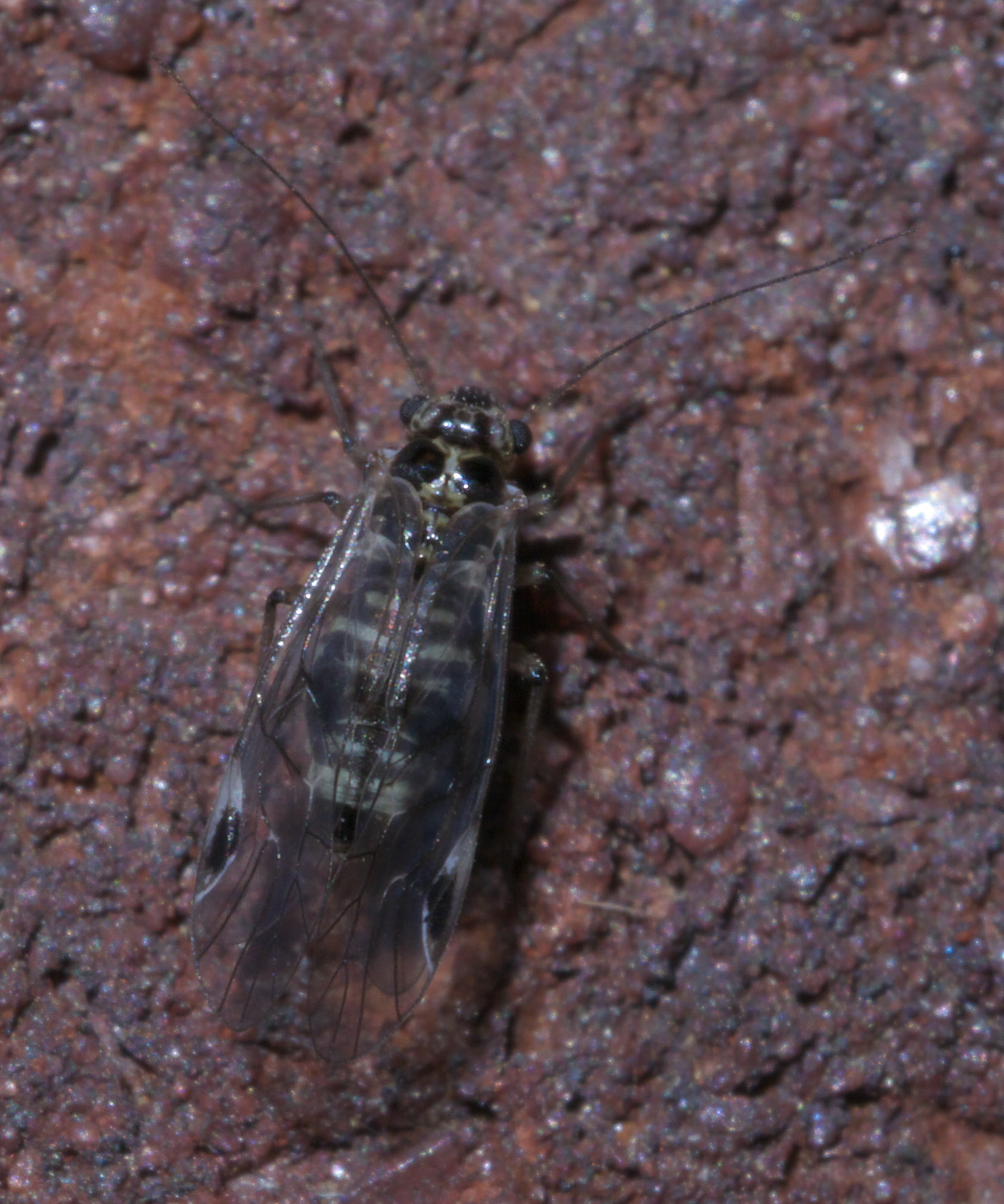 Blaste quieta, Family: Common Barklice, Size: 3 mm (body), ID Confidence: 90